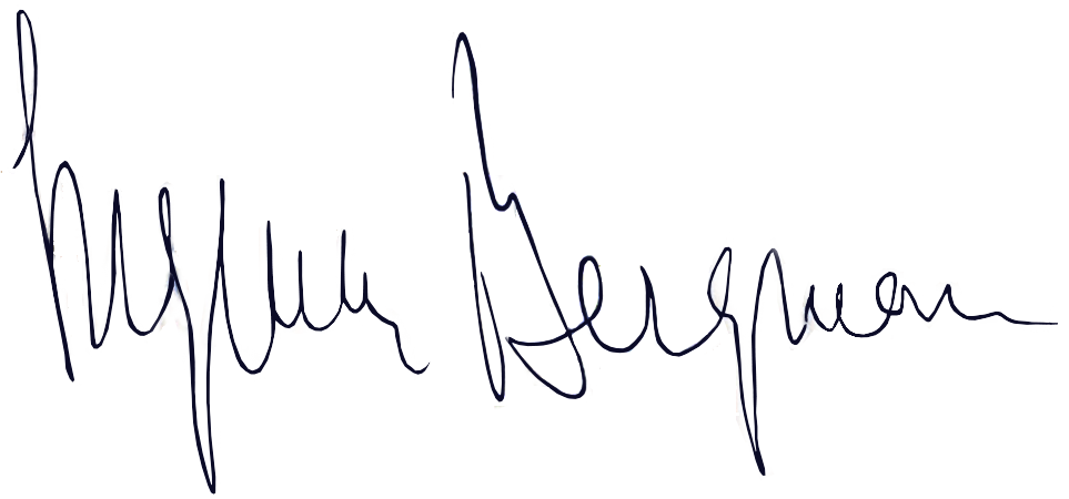 Ingmar Bergman's Signature